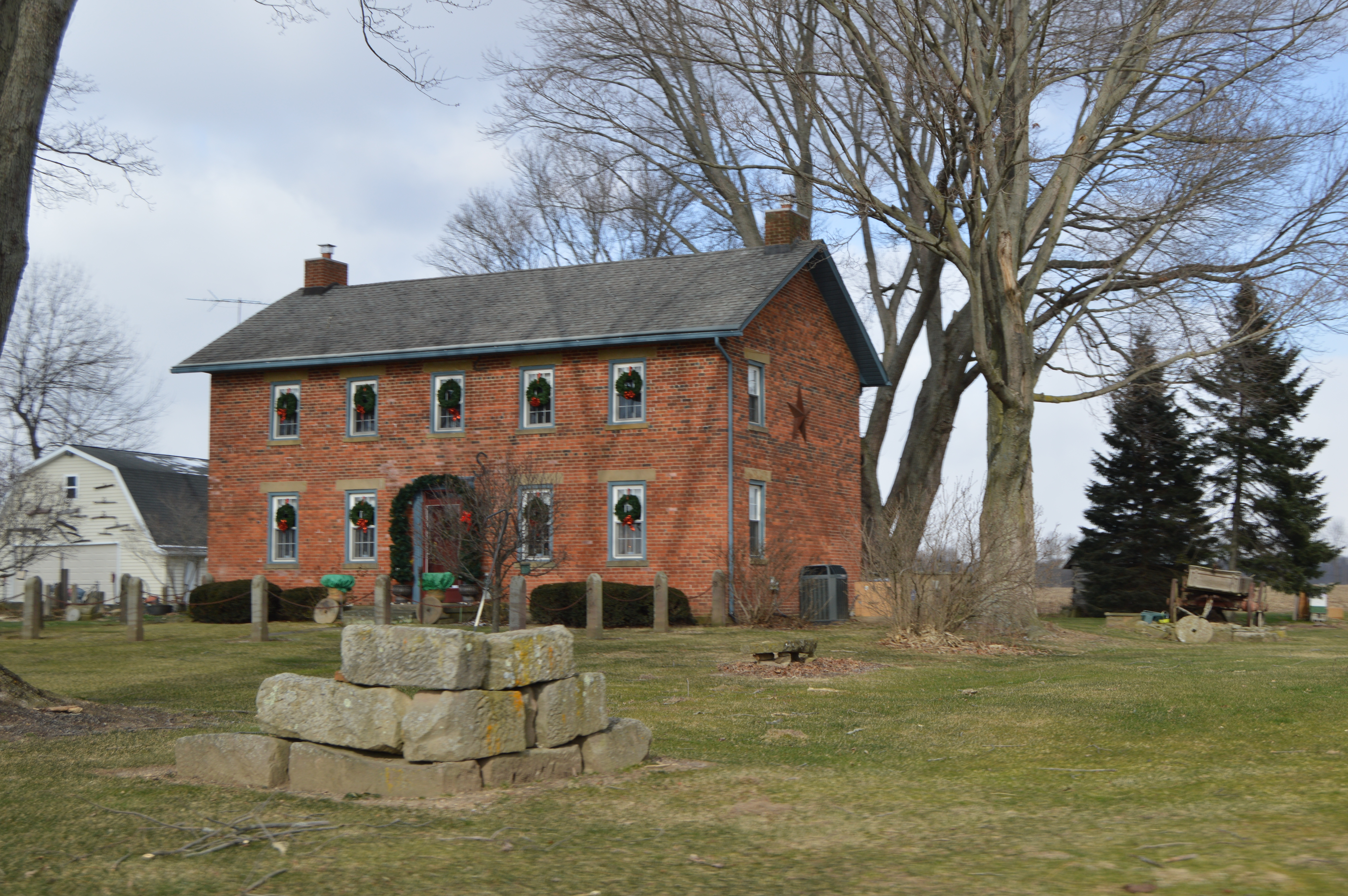 Front and eastern end of the Richard and Ann Loveridge House, located at 12526 Lower Green Valley Road northwest of Mount Vernon in Morris Township, Knox County, Ohio, United States. Built in 1832, it is listed on the National Register of Historic Places.